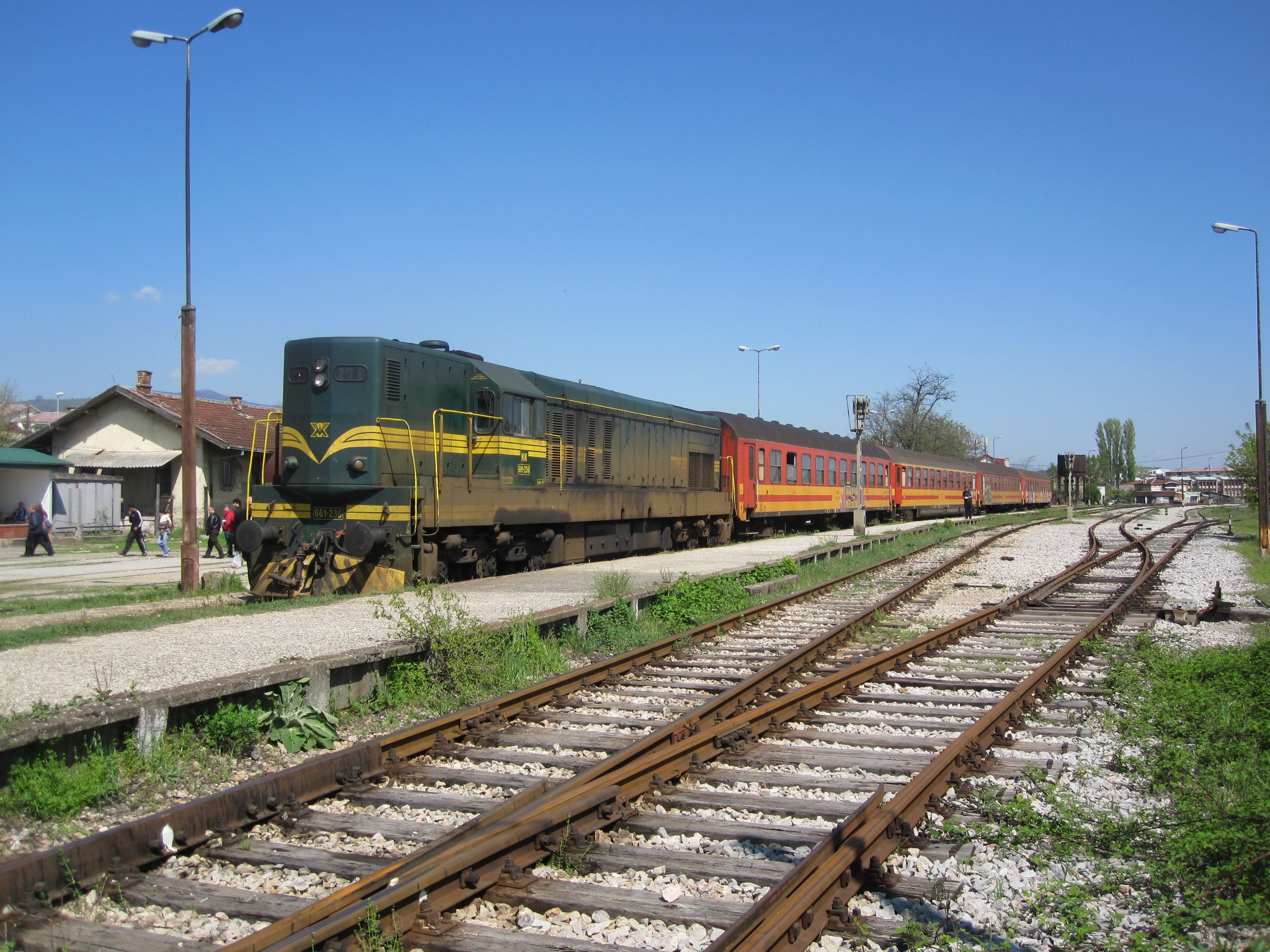 661.236 at Bitola having worked from Skopje. This working gave me a couple of hours spare in the town which was far from unpleasant.